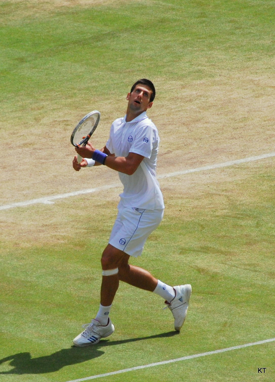 Novak Djokovic during his semi-final with Jo-Wilfried Tsonga. Djokovic won this 7-6, 6-2, 6-7, 6-3, on his way to his first Wimbledon title. Day 11 of Wimbledon 2011.